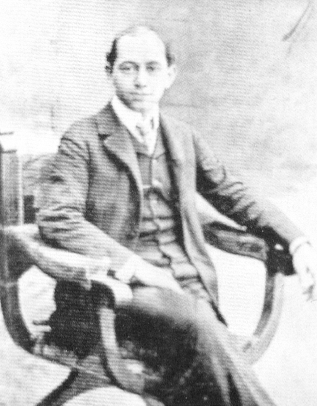 Heinrich Eisenbach (1870-1923), Austrian jewish slang comedian (jüdischer Jargonkomiker) and long term director of the "Budapester Orpheum" (1889-1919) in Vienna; also actor in early Austrian film comedies.